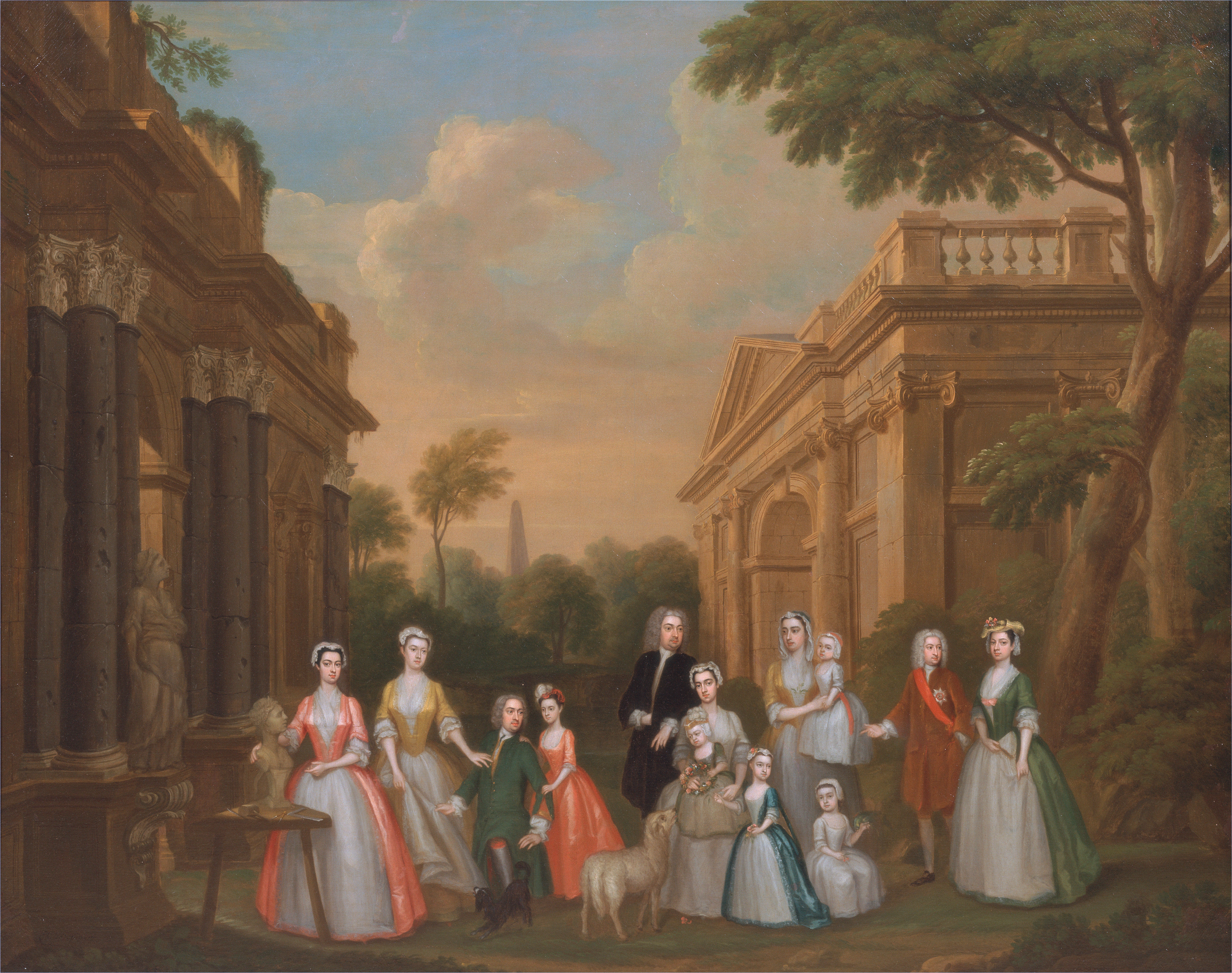 The Watson-Wentworth and Finch Families oil on canvas 100.3 x 124.5 cm signed (l.l.): C Philip[?] Pinxit ca. 1732